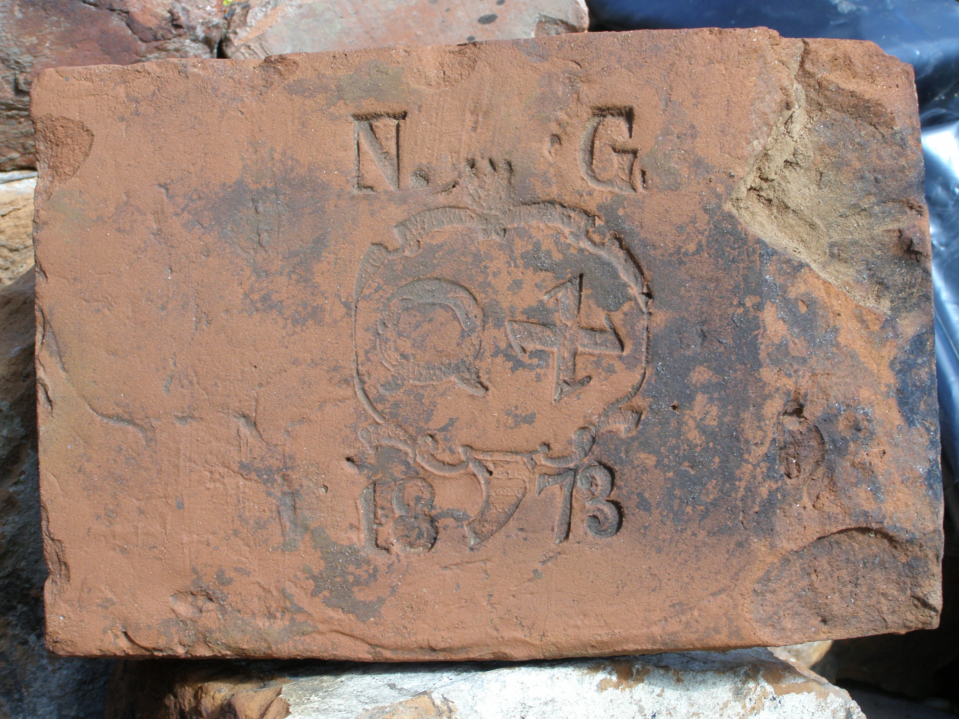 Brick of Biržuvėnai manor, Telšiai district, LithuaniaLietuvių: Biržuvėnų plytinės 1873 m. plyta su Gorskių herbu, Telšių rajonas, Lietuva